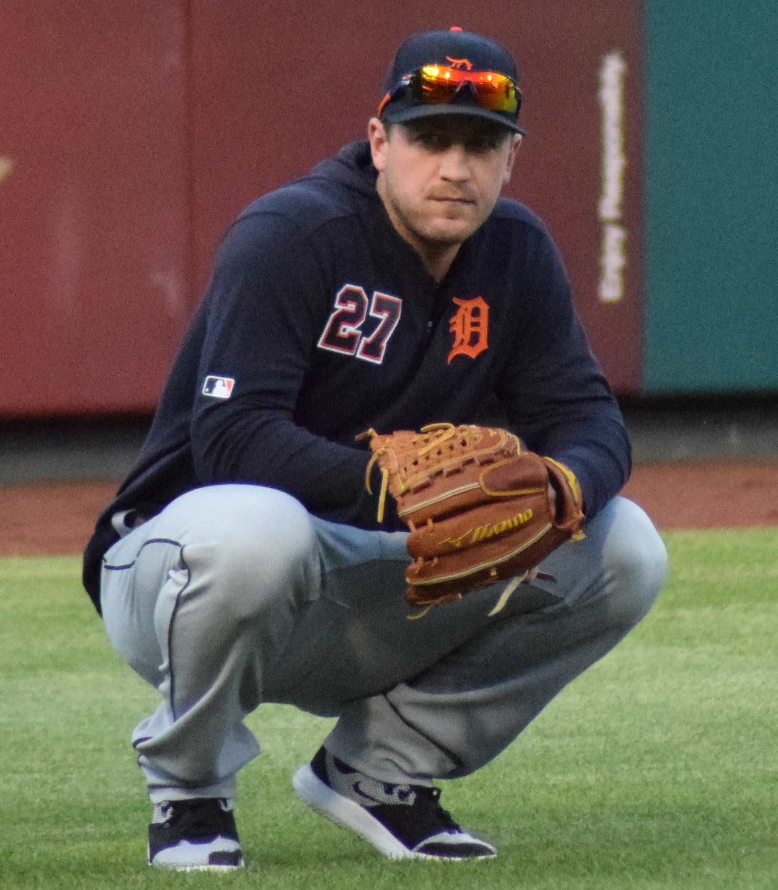 Matt Boyd, Jordan Zimmermann and Shane Greene of the Detroit Tigers at Citizens Bank Park in Philadelphia in April 2019.